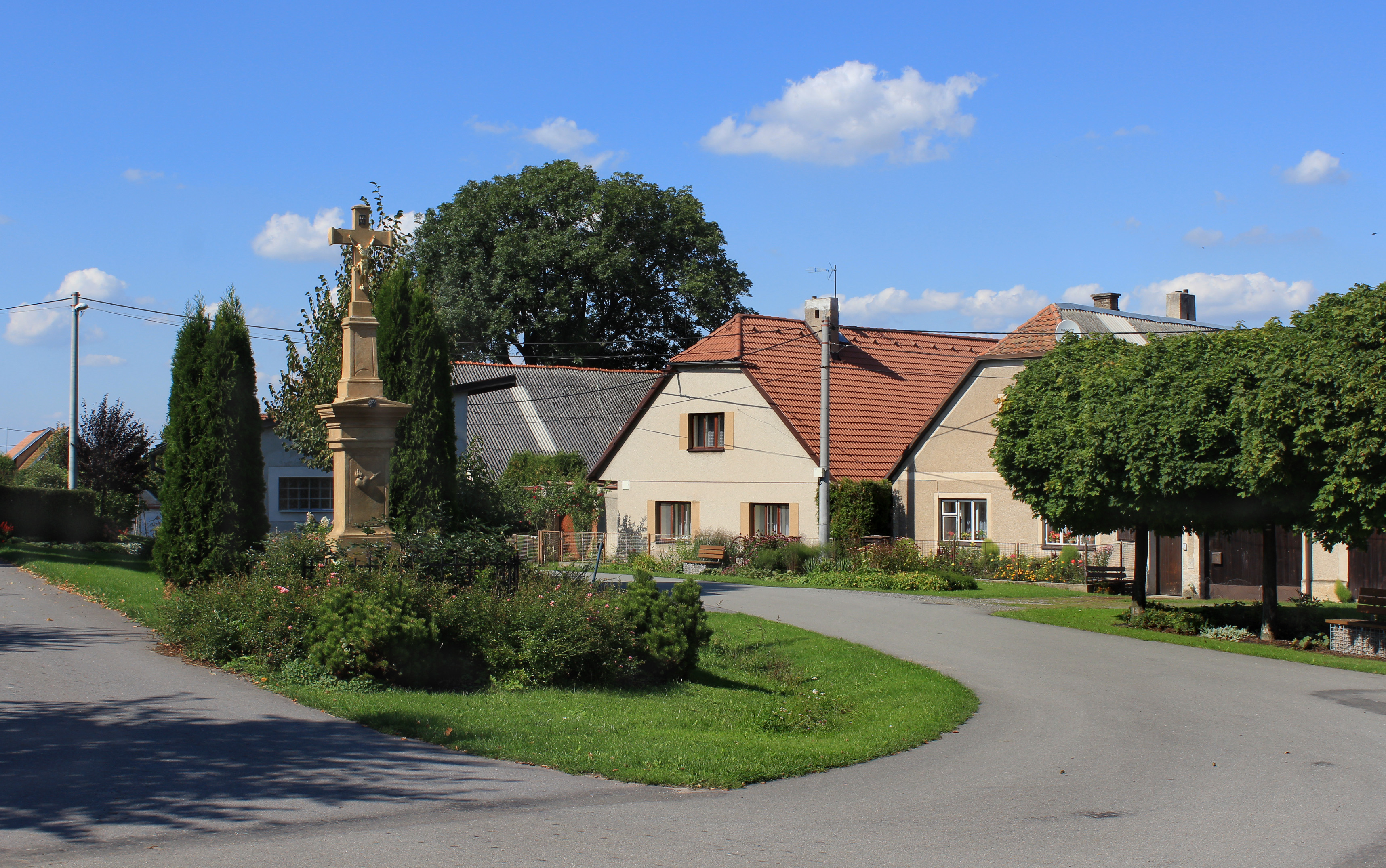 Common in Horky, Czech Republic.